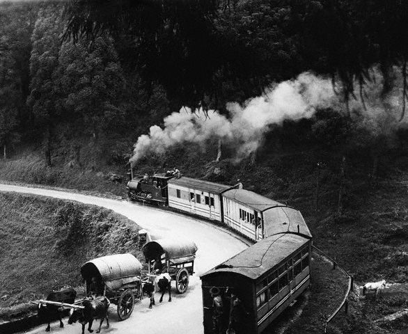 A steam driven passenger train negotiates a bend on a narrow track which descends towards Darjeeling. Two "brake men" ride at the rear of the end carriage.